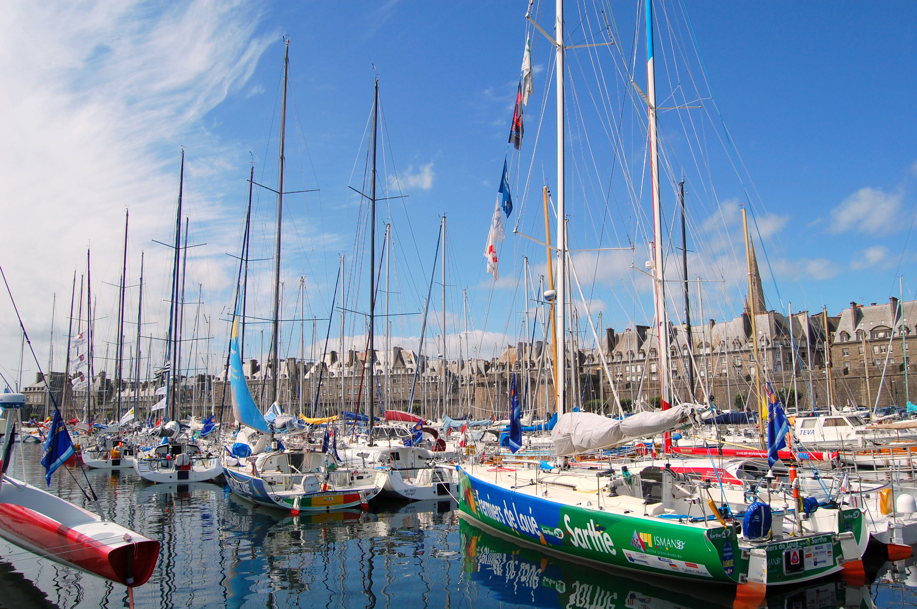 Port of Saint Malo, Brittany, France